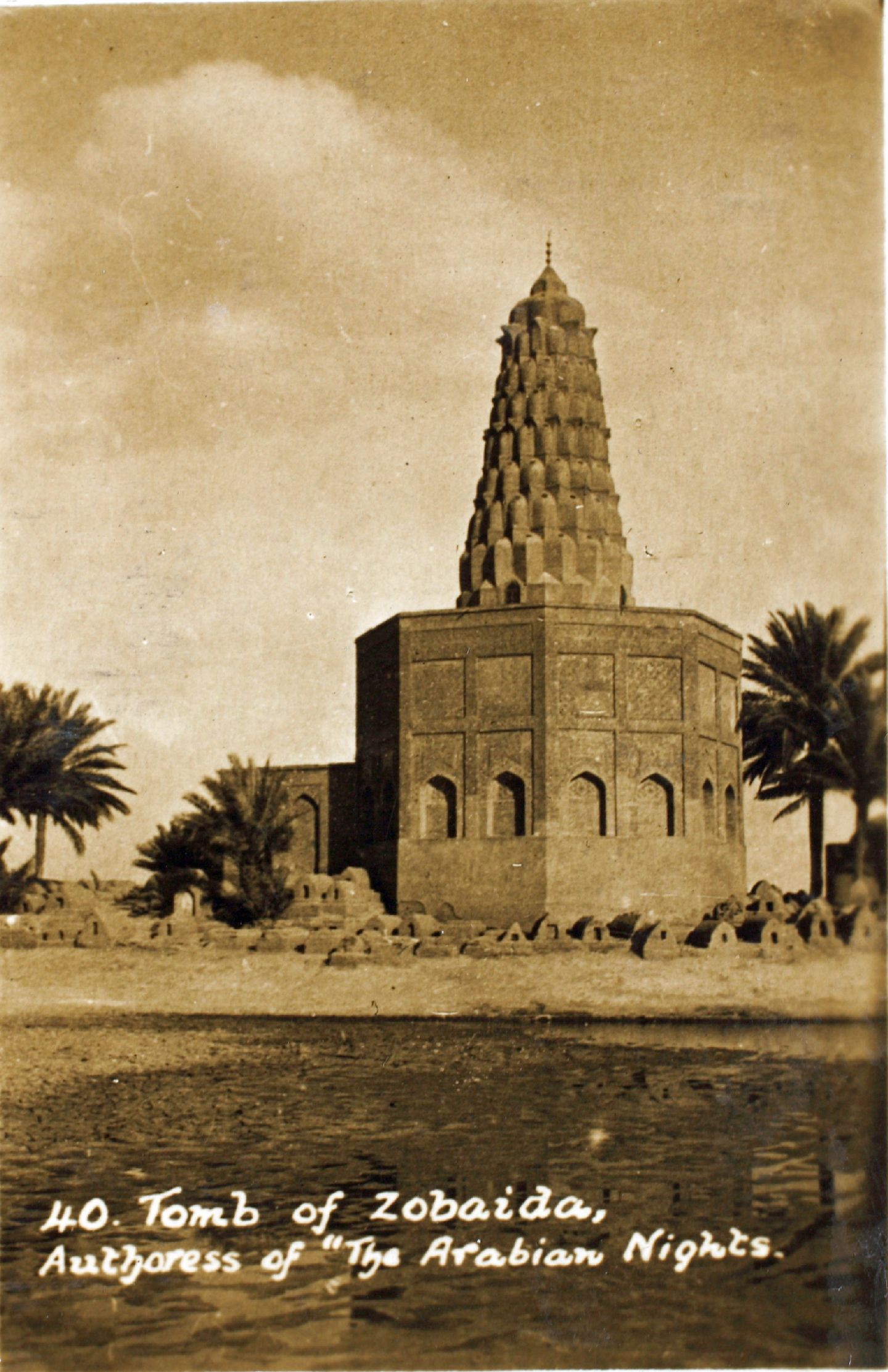 Zumurrud Khatun Tomb (1202 CE.), in cemetery at Baghdad